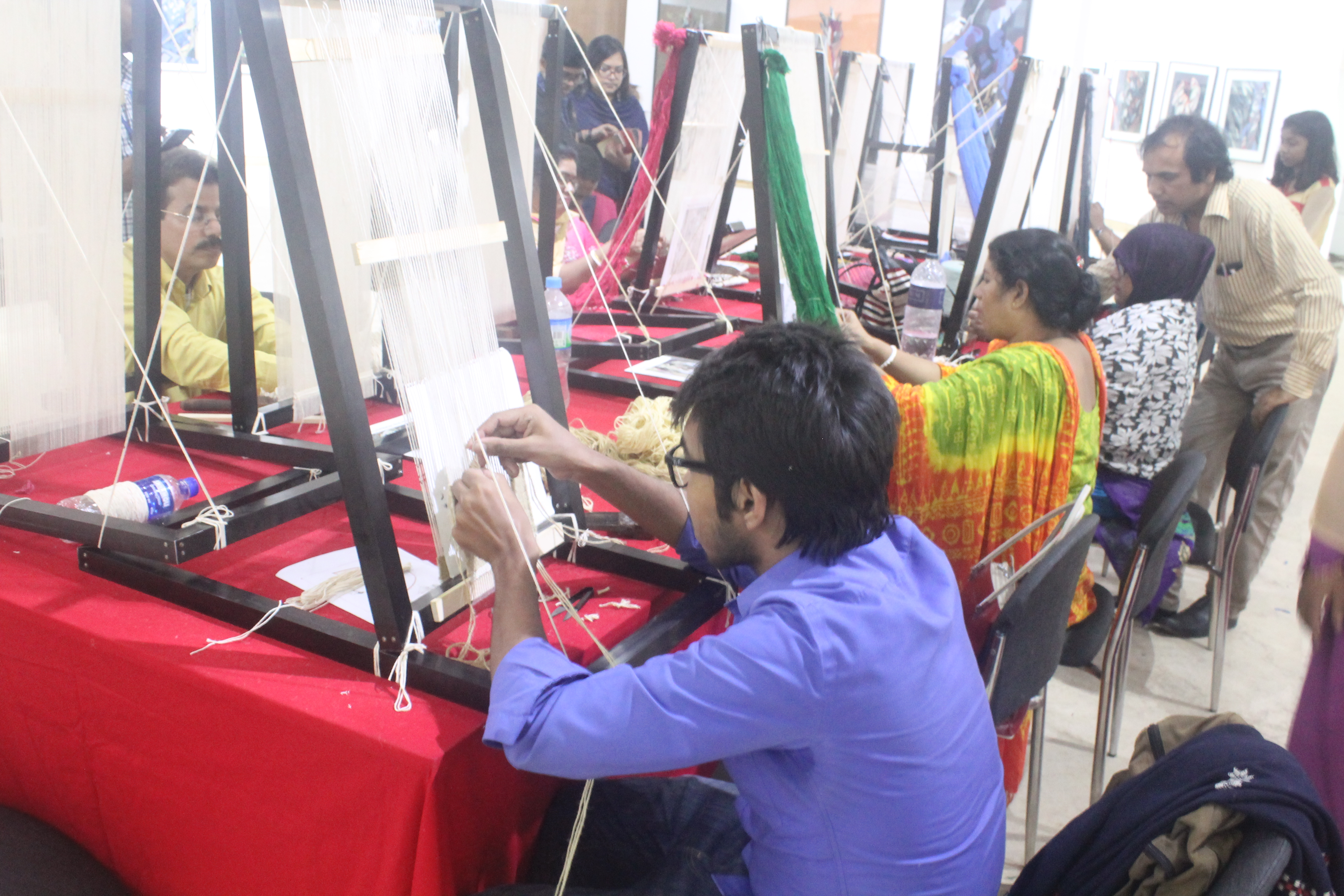 A Group of people busy with developing Tapestry at Bangladesh National Museum.